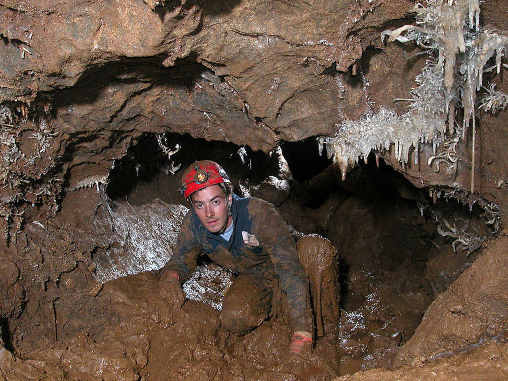 Photo by Dave Bunnell of a caver traversing a muddy crawlway in Black Chasm Cavern. A National Natural Landmark of the United States in Amador County, California.